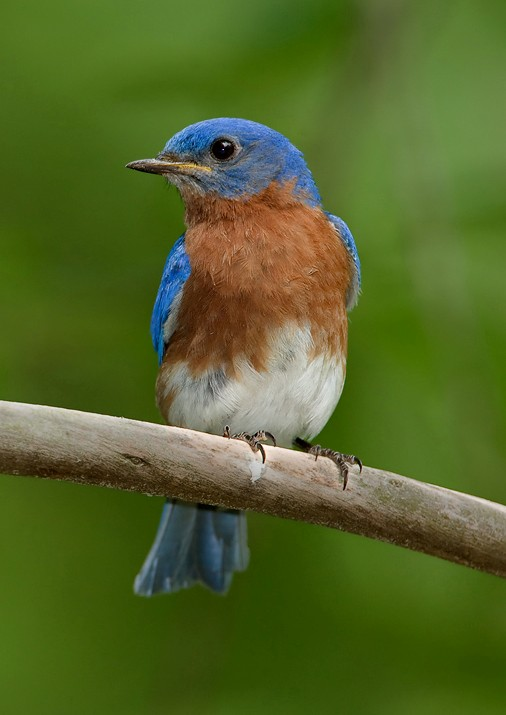 Eastern bluebird